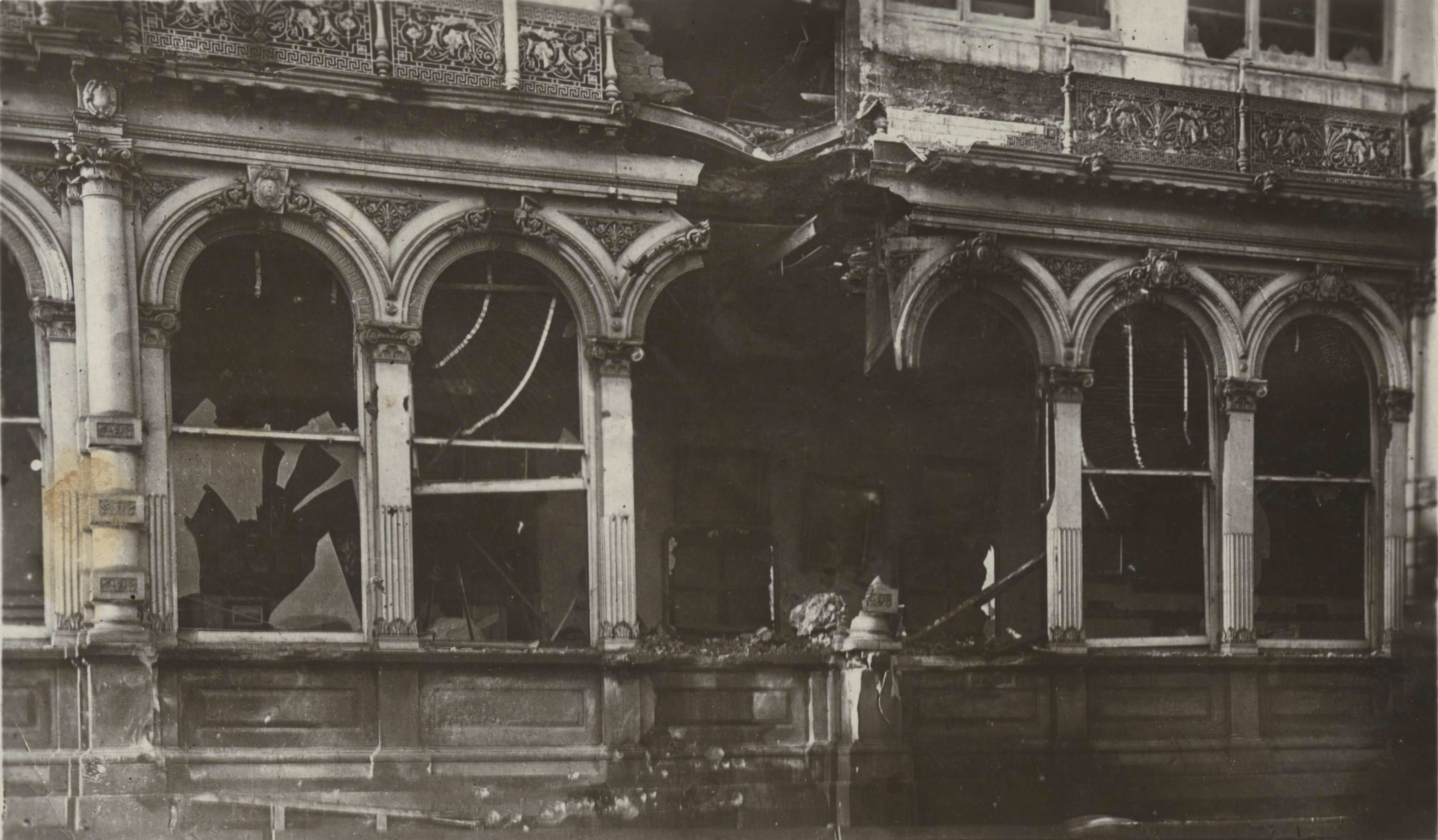 1914 photo postcard of the Grand Hotel, Scarborough, Yorkshire, England. It was designed by Cuthbert Brodrick and opened in 1867. The exterior carving was executed by Benjamin Burstall and Matthew Taylor of Leeds. It was shelled on 16 December 1914, and the postcard is labelled on the front with that date. The images shows the bomb damage to the facade of the hotel restaurant, and also the stone carving by Burstall & Taylor. Note: the stone-carved emblem above some of the window arches has the monogram "GH" for Grand Hotel.